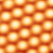 Silicon atoms observed at the surface of a silicon carbide (SIC) crystal using a Scanning Tunneling Microscope (STM)